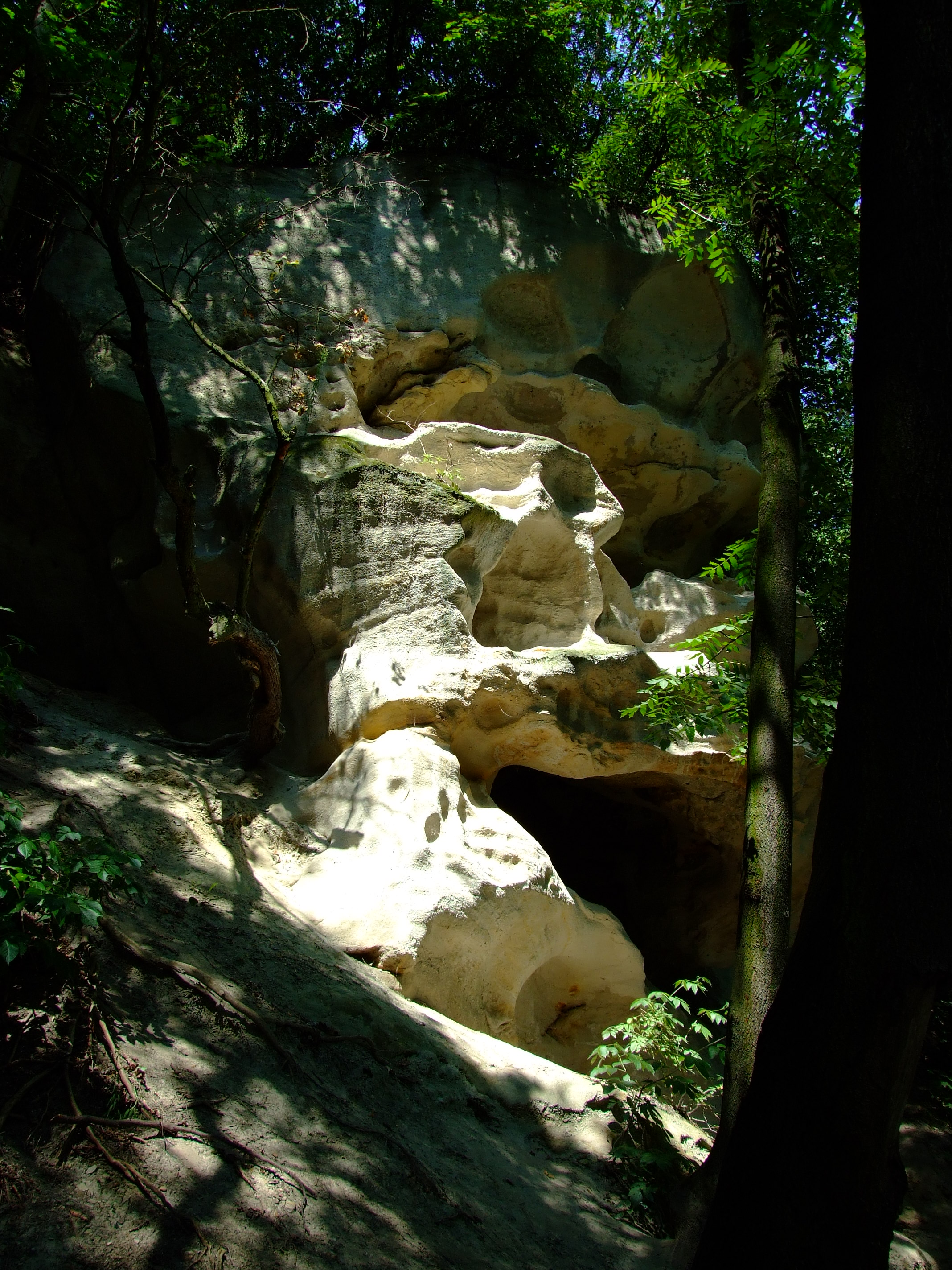 Lobečská skála rock, sandstone formations near Kralupy nad Vltavou, CZhelp